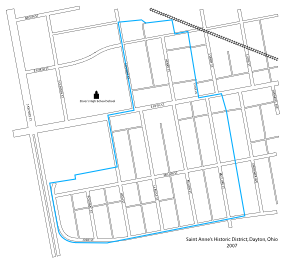 Scaled version of Image:StAnnesHillHDMap.svg to get around a scaling problem with an infobox in the English Wikipedia.